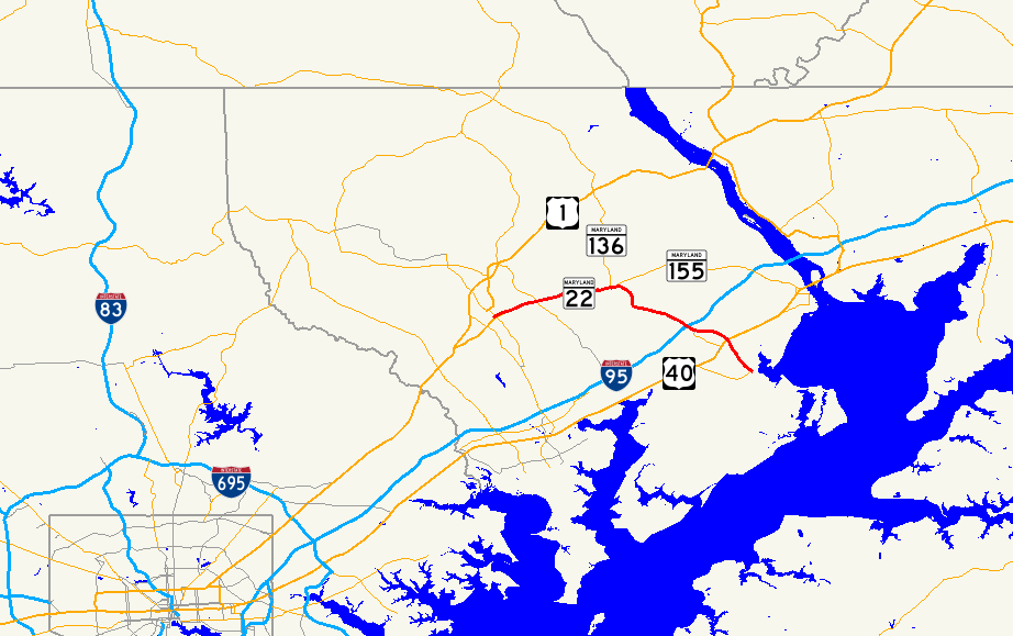 Map of Maryland Route 22